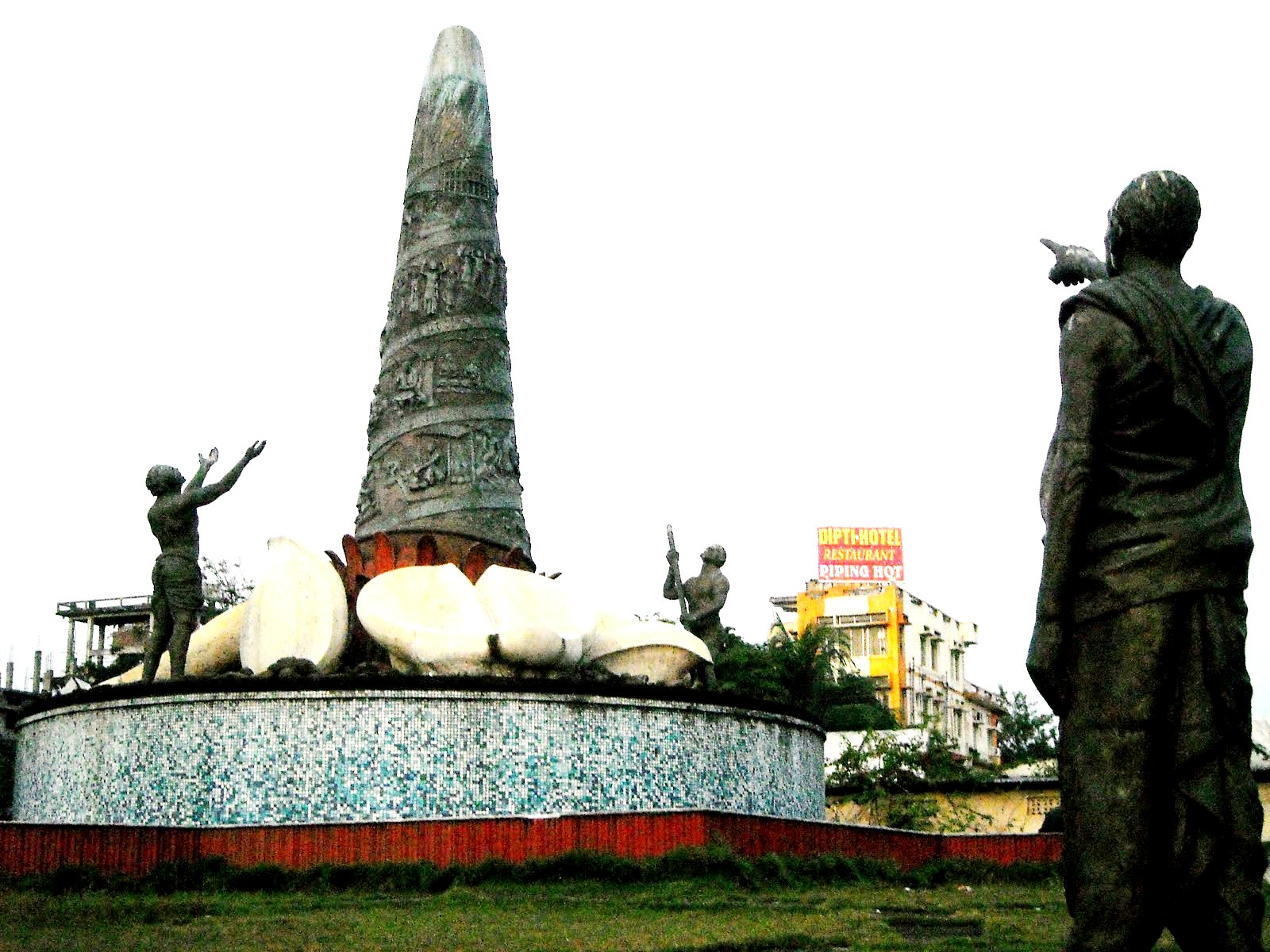 Jorhat